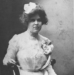 Adelaide Crapsey (1878-1914), creator of American cinquain.